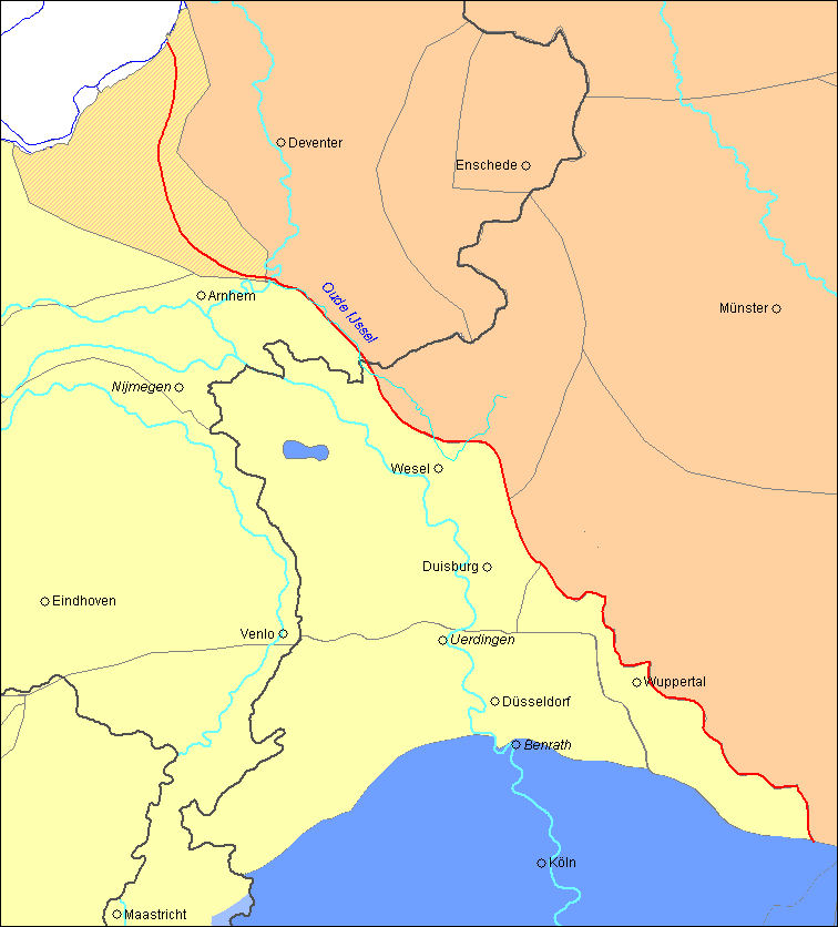 Location of the dialect isogloss Einheitsplurallinie in The Netherlands and Germany